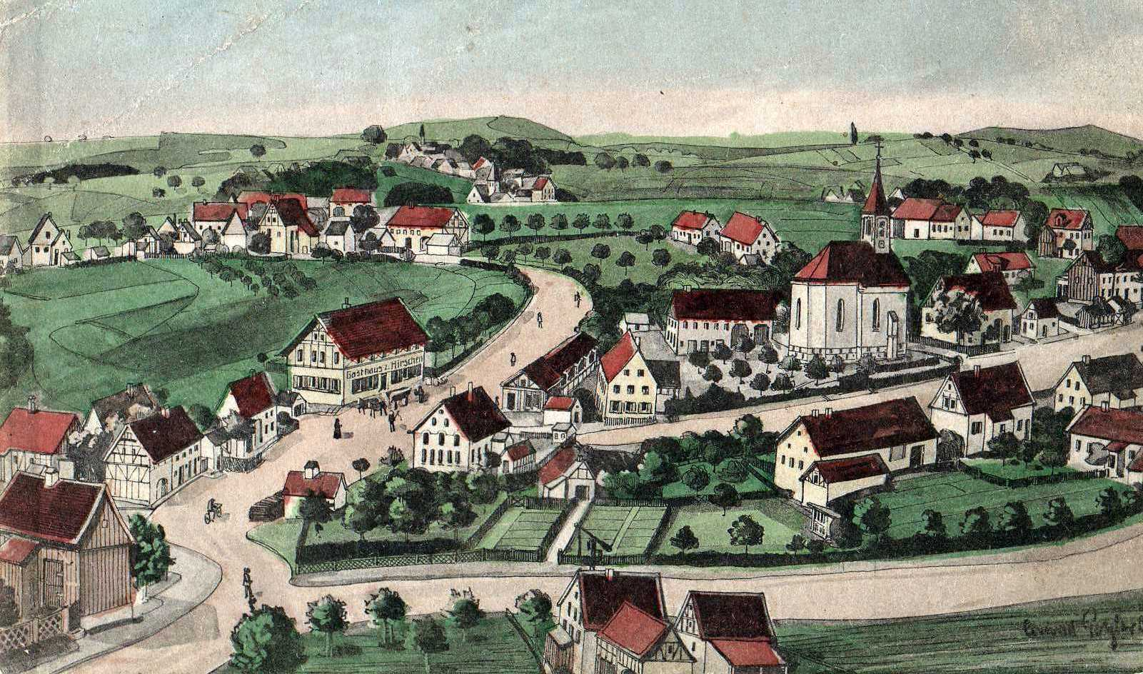 Old Picture of Gaishardt